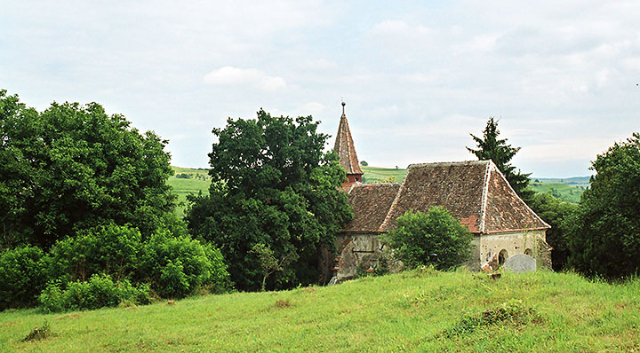 Zlagna church, Romania